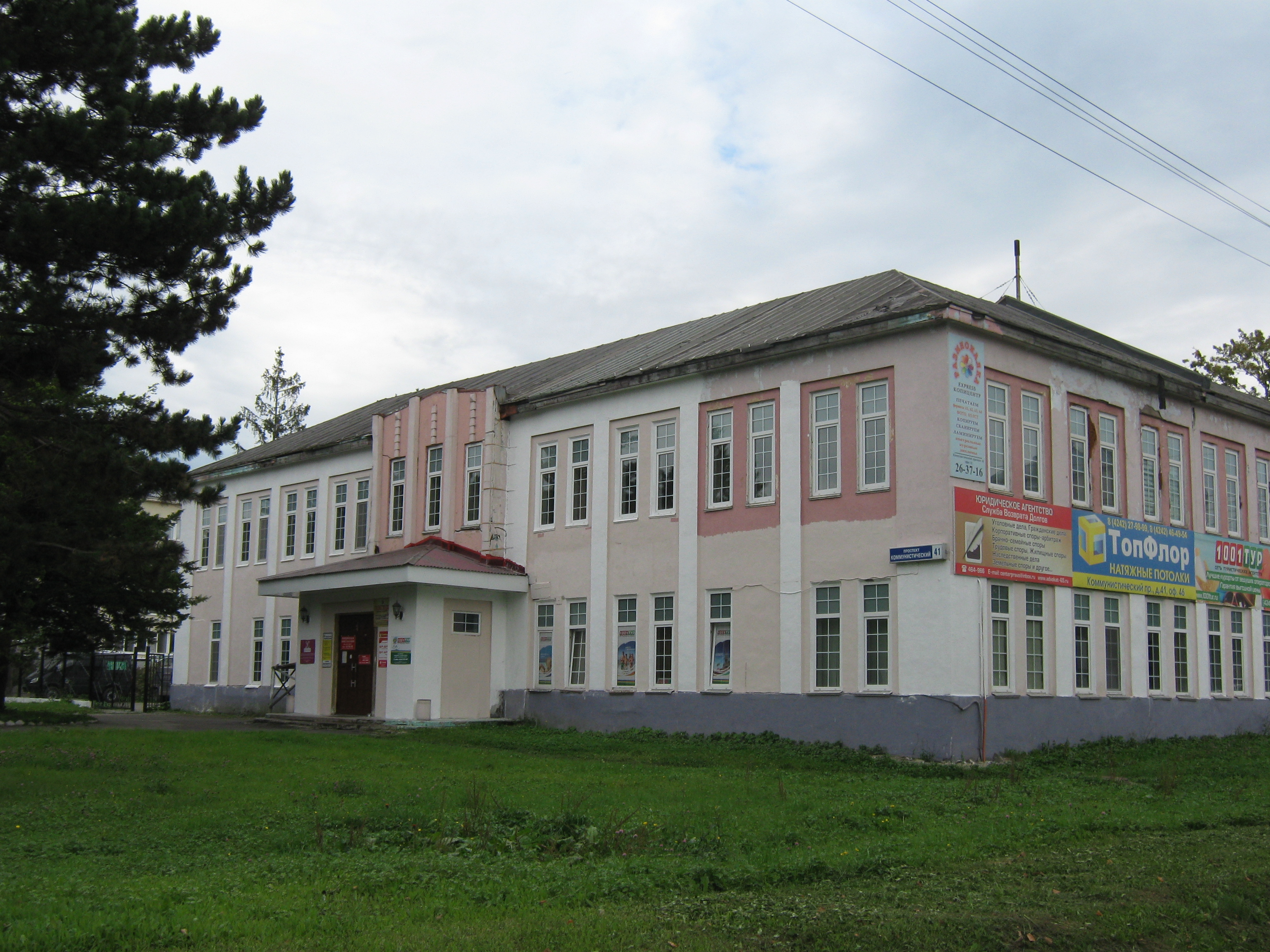 The former city hall of Toyohara (today the city of Yuzhno-Sakhalinsk, Russia). It was built in the mid-1920s during the Japanese rule of Southern Sakhalin (the former prefecture of Karafuto). Currently, it houses commercial offices.